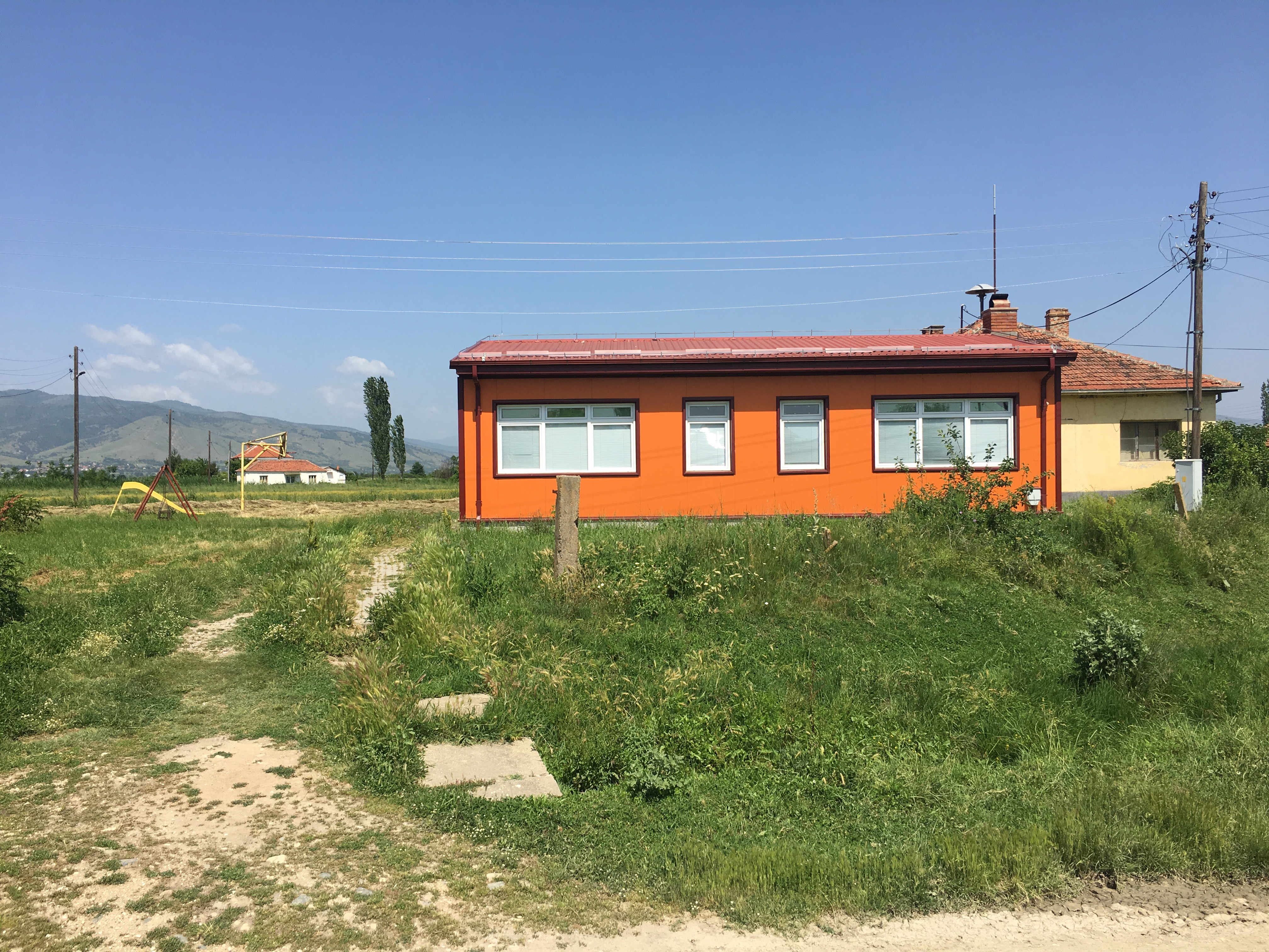 The primary school in the village of Karamani